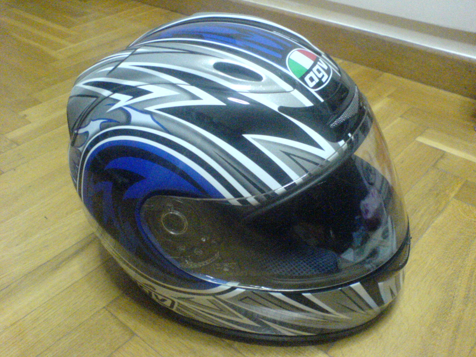 My AGV Helmet